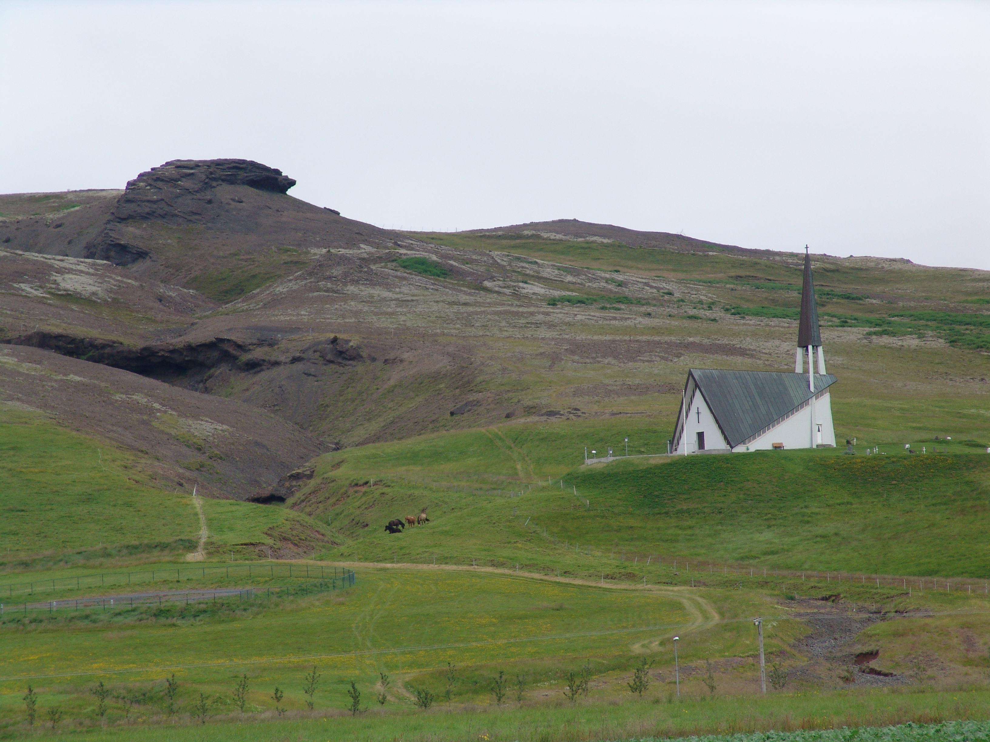 Church in Mosfells valley, Iceland